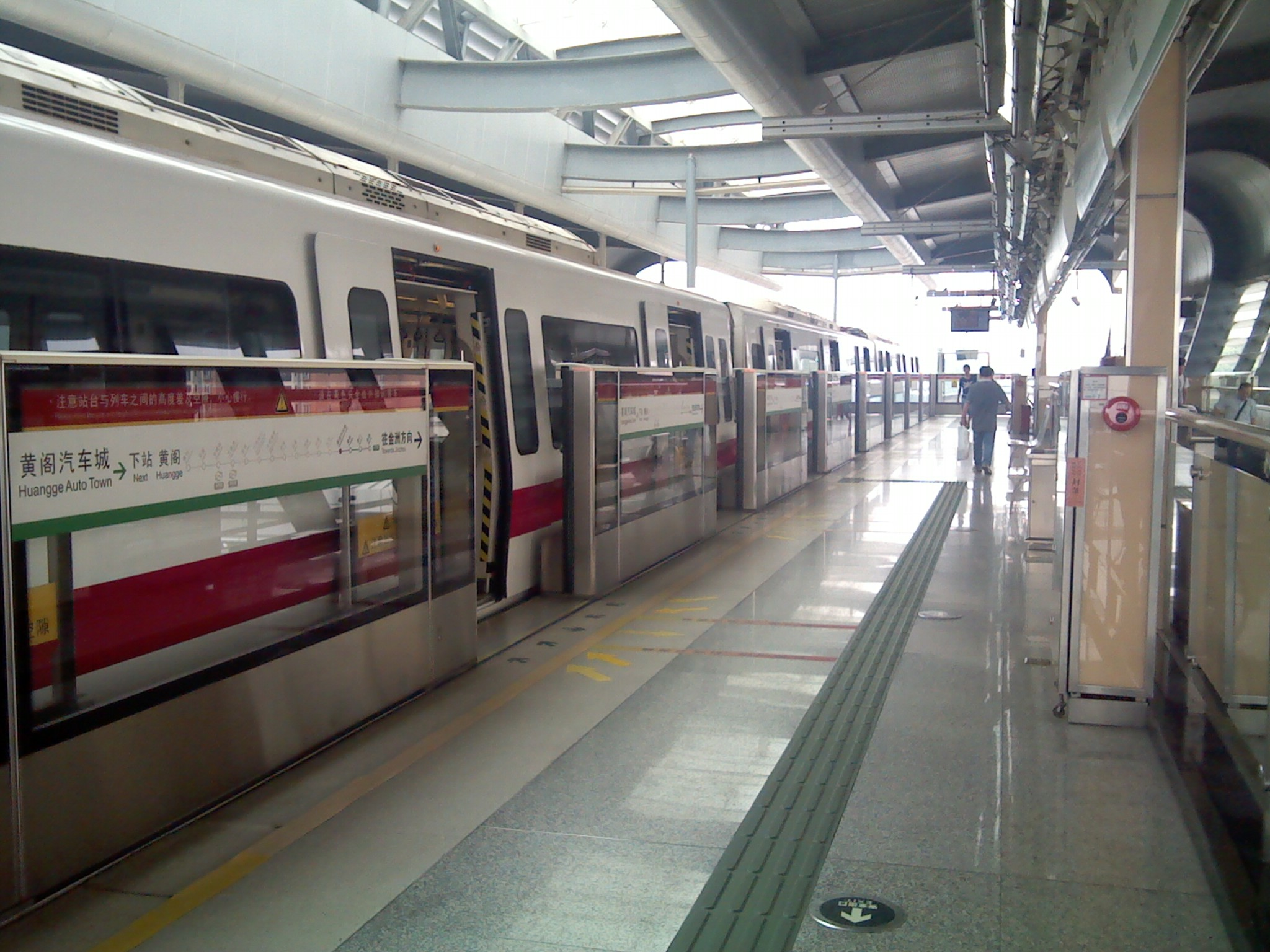 车站月台（金洲方向）